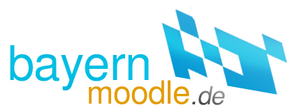 Logo of the eLearning initiative BayernMoodle (bayernmoodle.de)